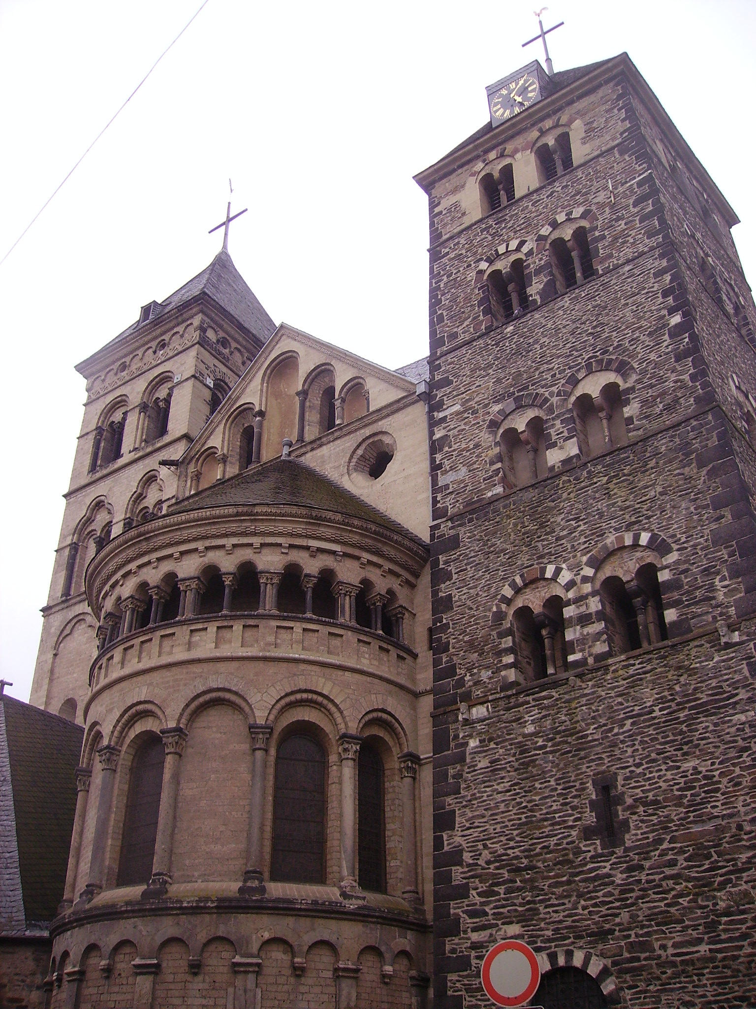 Apse of the church of Our Lady, Andernach